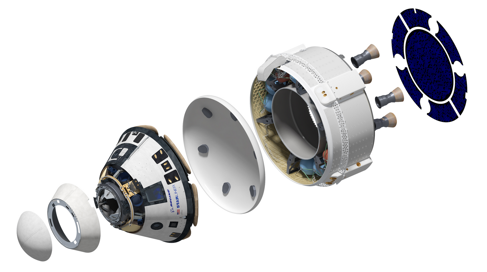 Diagram of CST-100 Starliner (source : press kit NASA)